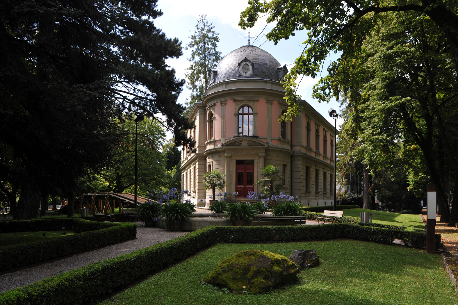 Museum Schwab in Biel; Berne, Switzerland.